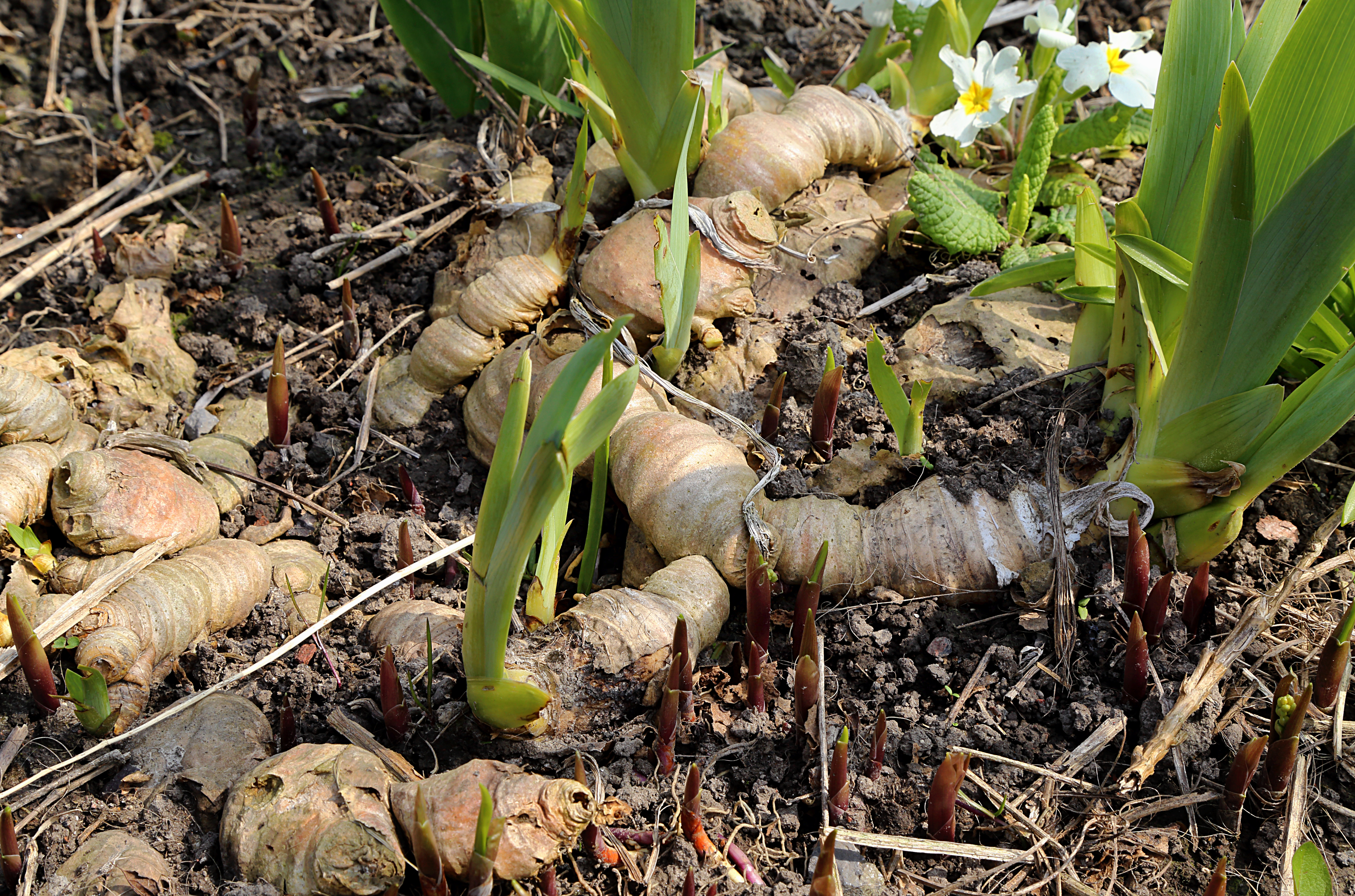 Iris rhizomes, in the background to the right, primroses, picture taken in allotments in Tourcoing (Nord), France.